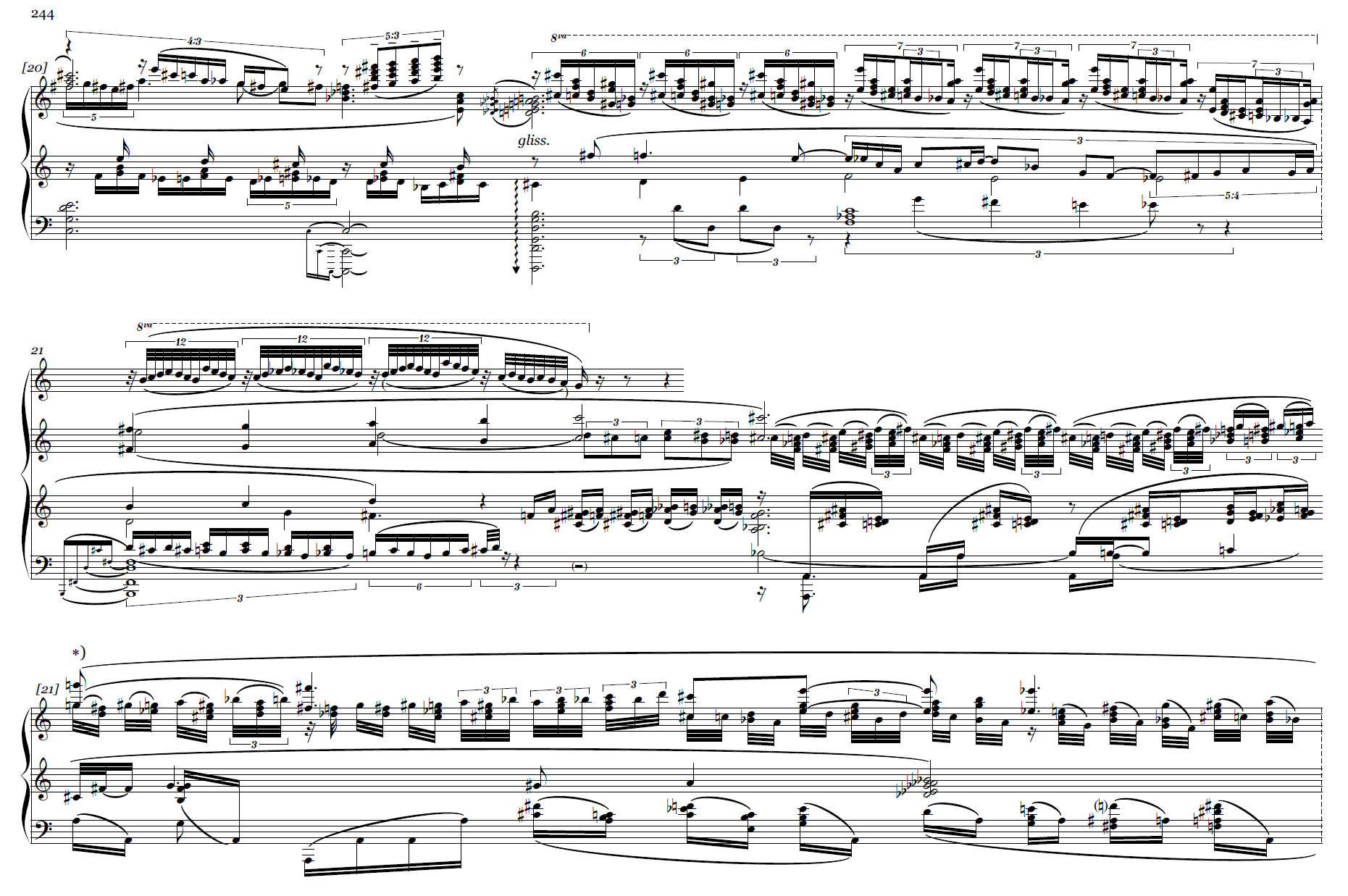 This is page 244 of Abel Sánchez-Aguilera's edition of Kaikhosru Shapurji Sorabji's (1892–1988) Piano Symphony No. 1, Tāntrik (1938–39). It is an example of his "tropical nocturne" genre, which is defined by intricate ornamental writing, extensive use of irrational rhythms, and complex, ever-changing pianistic figurations and textures.